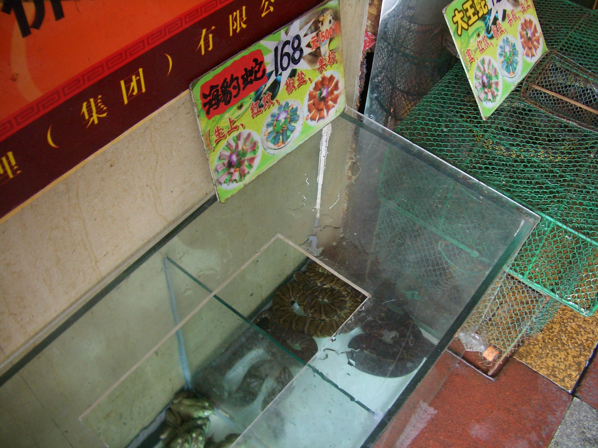 At 168 yuan per 500 gram (about $24/lb), live snakes (accompanied by a list of options for preapring them) occupy a place of honor among the creatures displayed outside of a Guangzhou restaurant. The specieis is described as "海豹蛇" (sea-leopard snake) - the Enhydris bocourti perhaps, based on a web search?